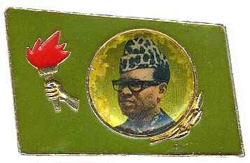 MPR party badge showing Mobutu Sese Seko.